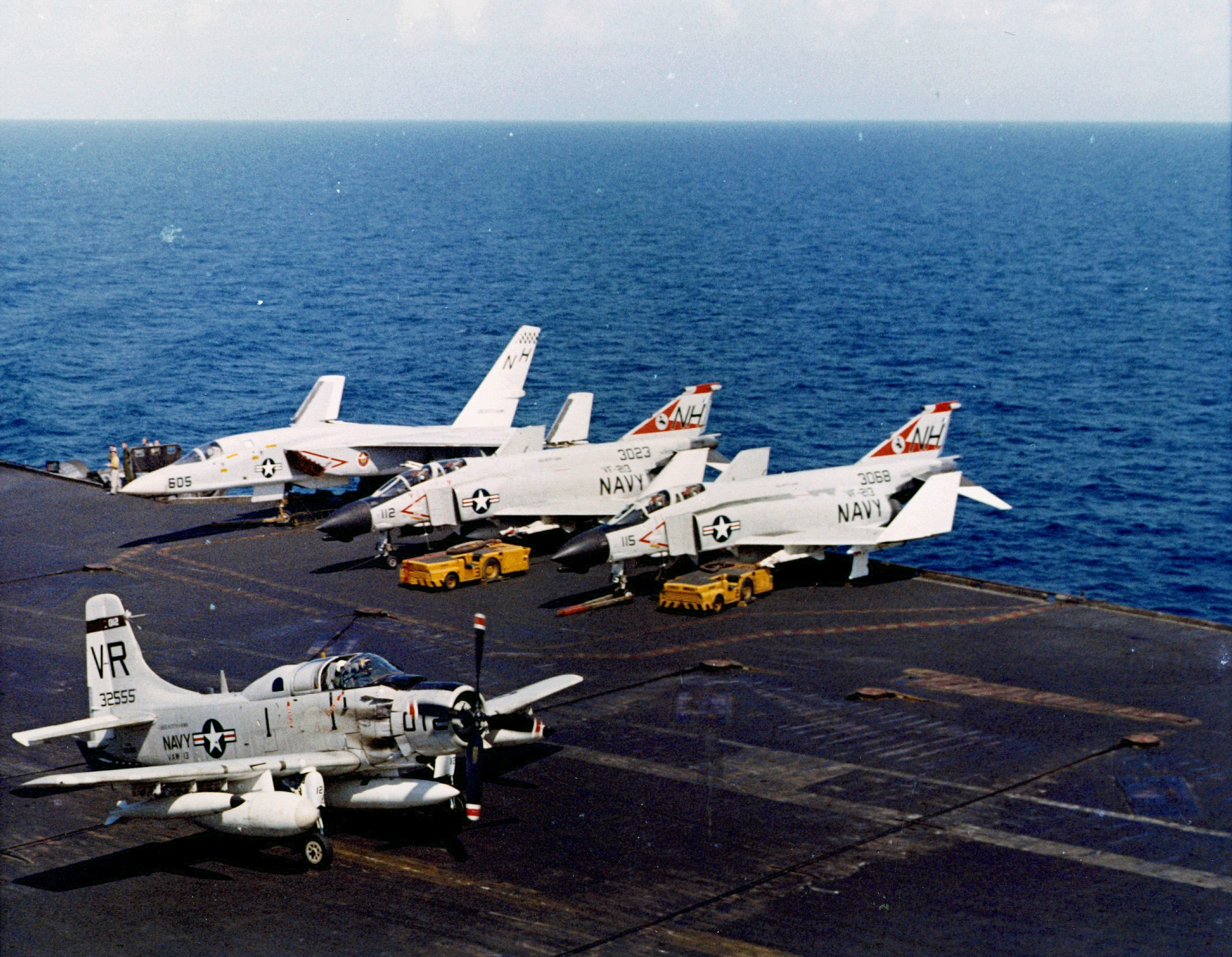 A U.S. Navy Douglas EA-1F Skyraider of airborne early warning squadron VAW-13 Det. 63 on the deck of the aircraft carrier USS Kitty Hawk (CVA-63) off the coast of Vietnam. In the background are two McDonnell F-4B Phantom II fighters of fighter squadron VF-213 Black Lions (BuNo 153023, 153068) and a North American RA-5C Vigilante (BuNo 150831) of heavy reconnaissance squadron RVAH-11 Checkertails. All aircraft were assigned to Attack Carrier Air Wing Eleven (CVW-11) for a deployment to Vietnam from 18 November 1967 to 28 June 1968.